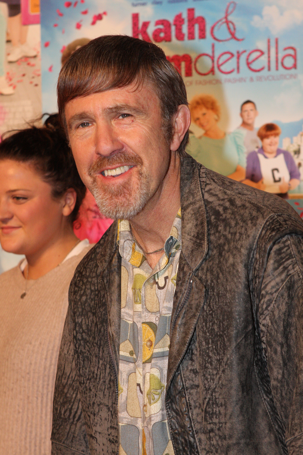 Glenn Robbins (in character) at the Kath & Kimderella movie premiere at Entertainment Quarter; Sydney, Australia